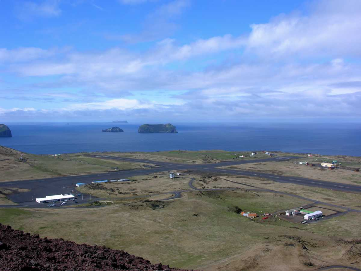 Iceland, Airport on Heimaey seen from Helgafell